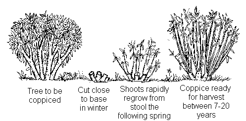 Image comes from english Wikipedia page: This is an updated version of Image:Coppice1.png with clearer text. (del) (cur) 19:31, 27 July 2006 . . Hjb26 . . 497×245 (6,661 bytes) (This is an updated version of :Image:Coppice1.png with clearer text.)